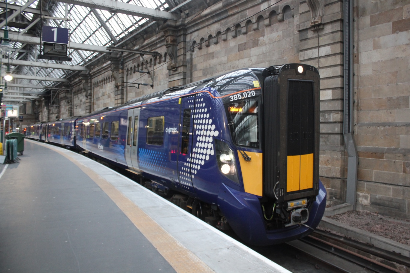 ScotRail Express unit 385020 at Glasgow Central station with a Shotts Line service to Edinburgh.